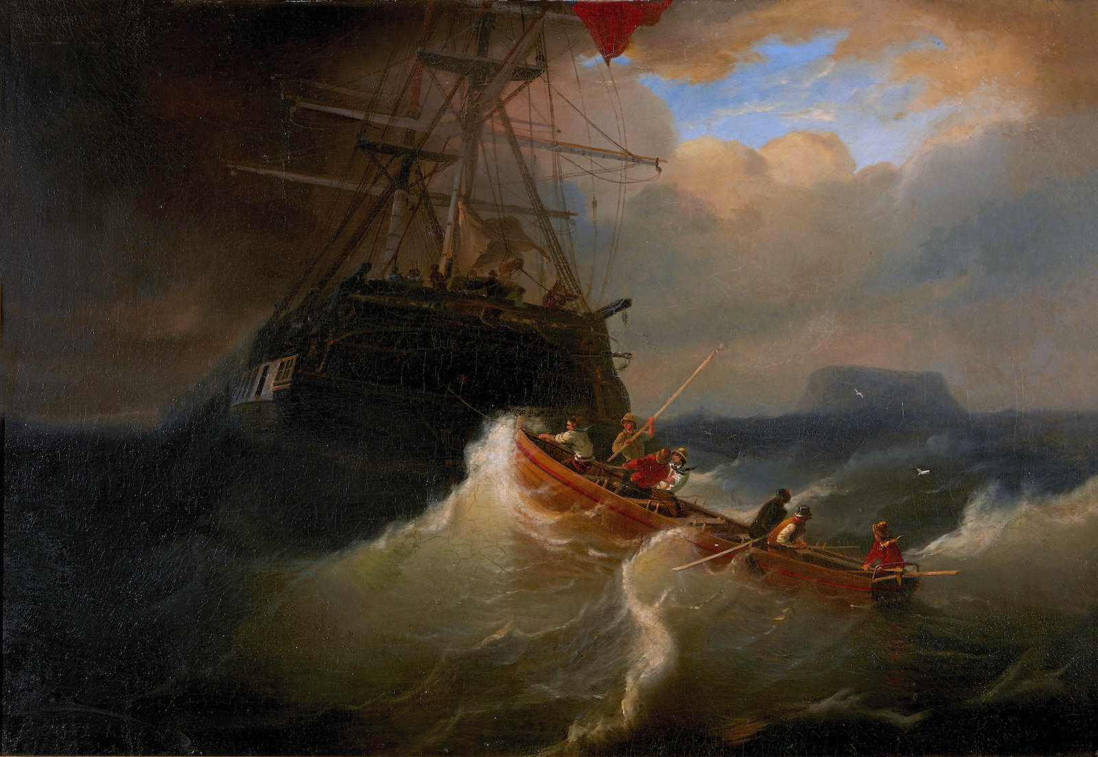 Retrieving the stern boat oil on canvas 46.3 x 67.9 cm signed b.l.: A. Achenbach 1846